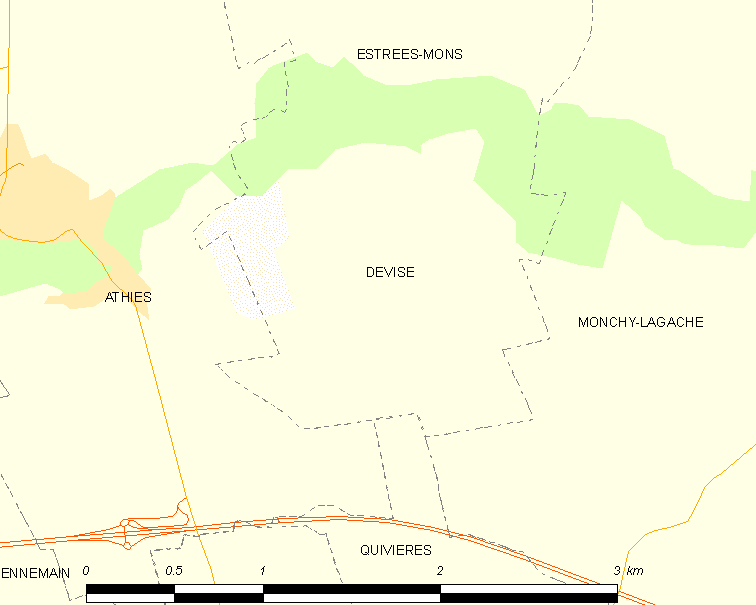 Map of French municipality Devise